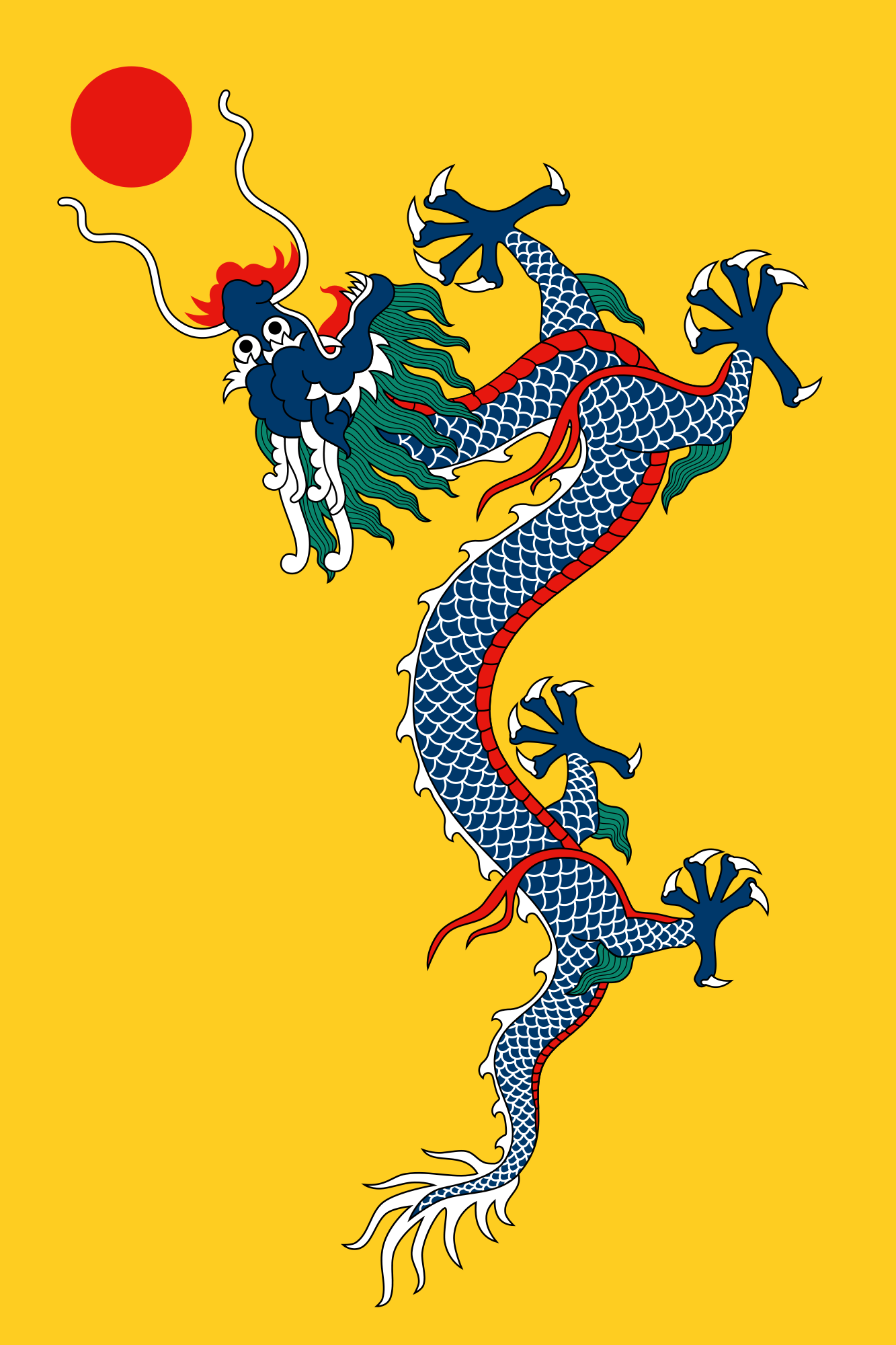 Flag of China (1889–1912; vertical)